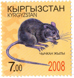 Stamp of Kyrgyzstan celebrating the "Year of the Rat" (Чычкан жылы)